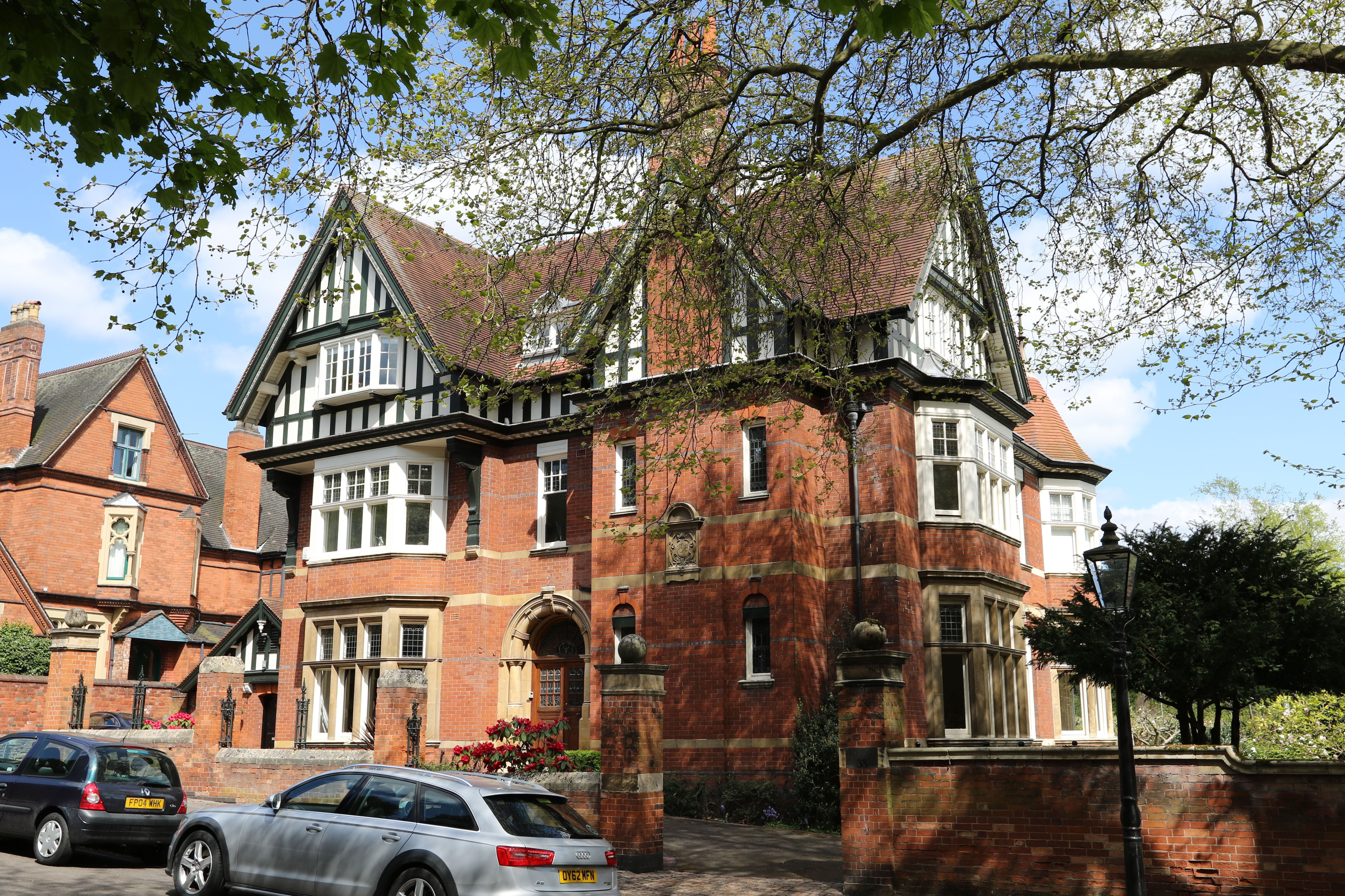 The Park Estate. Stockdale Harrison. 1898